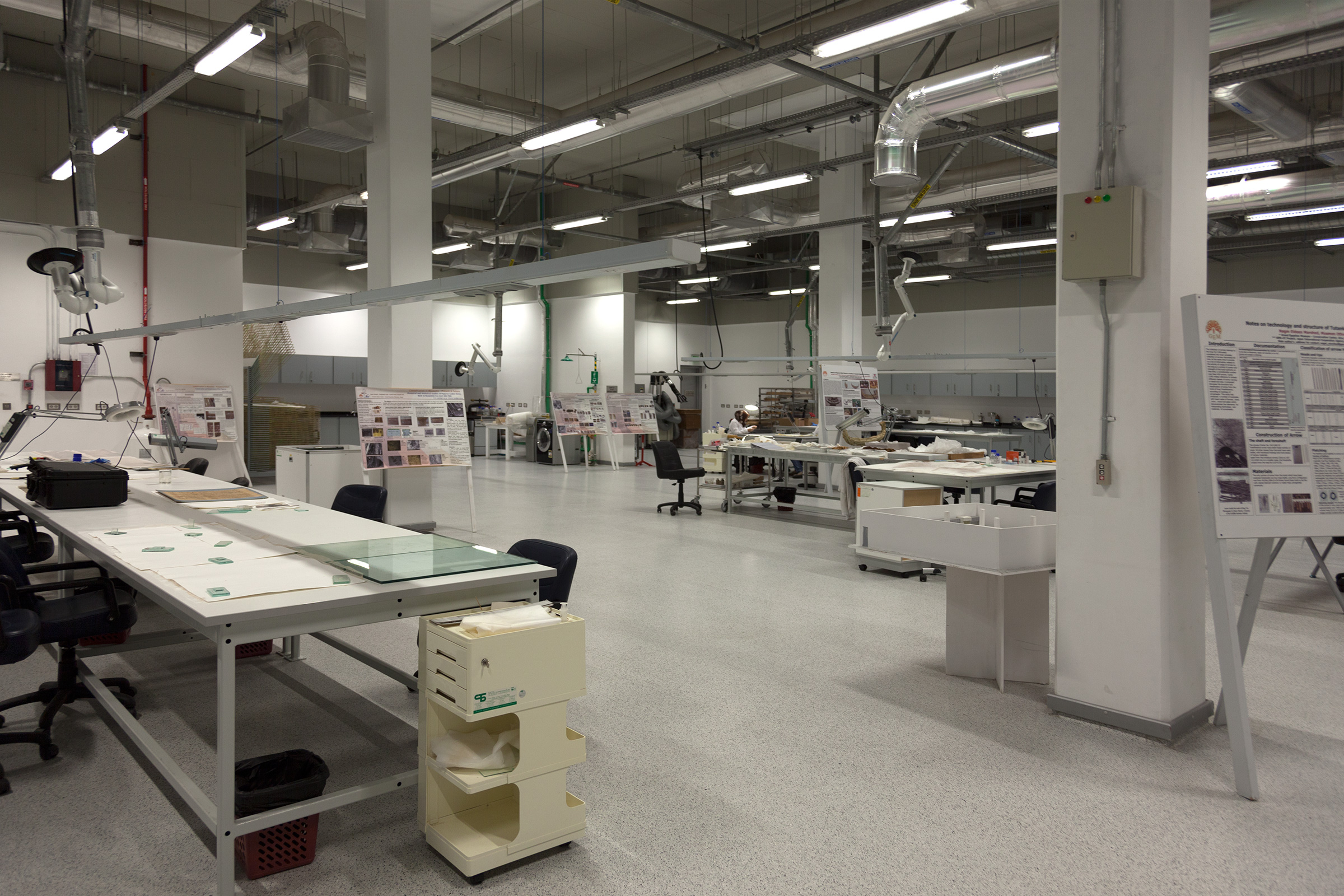 Laboratory in the Conservation Center of the Grand Egyptian Museum